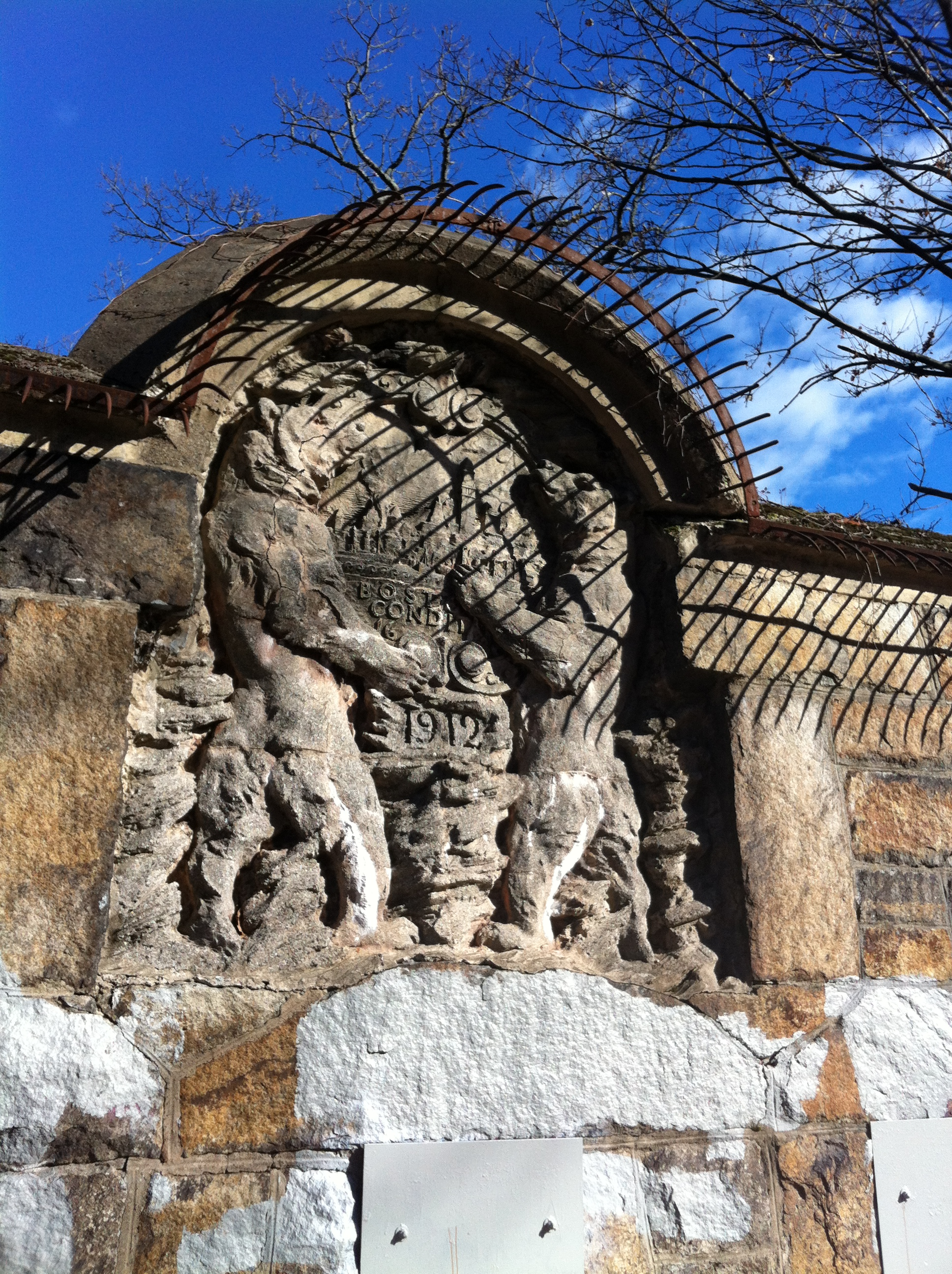 The ruins of the Bear Dens from the original Franklin Park Zoo from 1912 located in the Long Crouch Woods in Franklin Park.